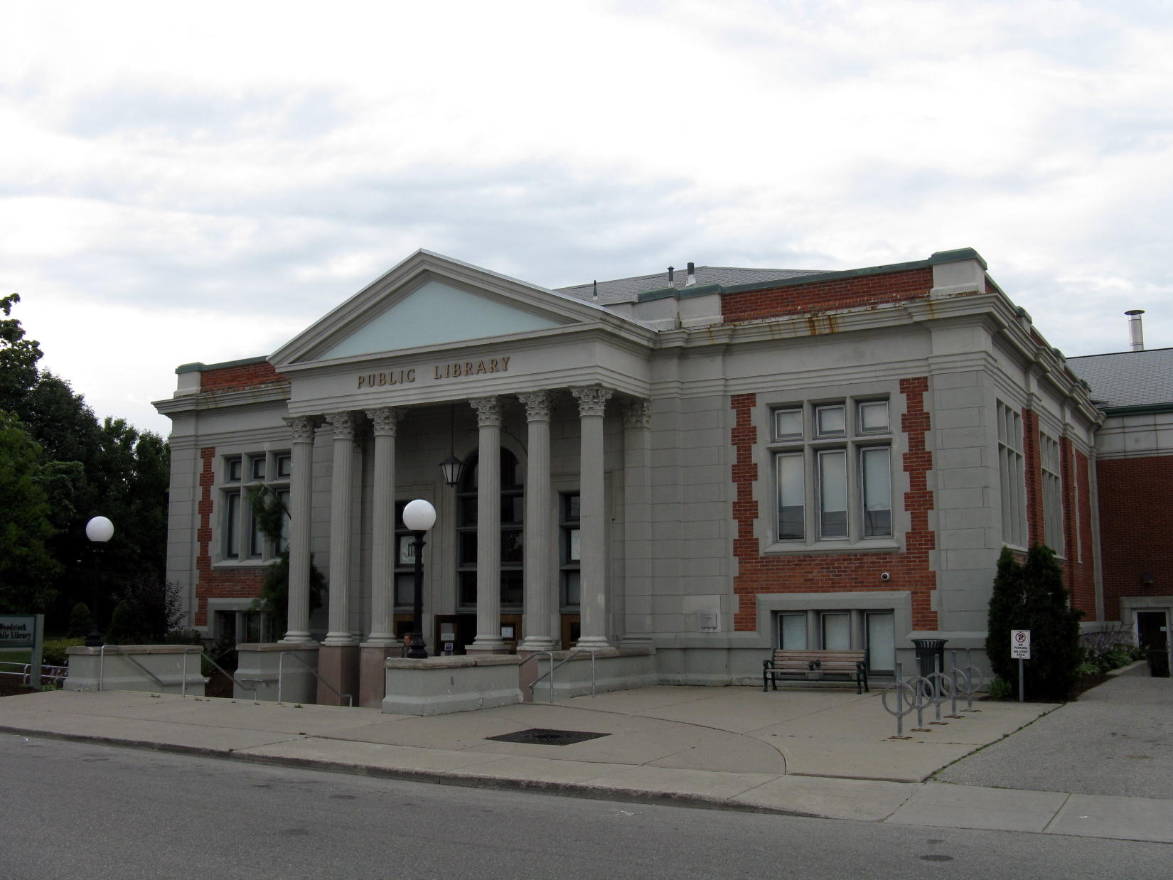 Public Library in Woodstock, Ontario. This library is known as one of the Carnegie Libraries (